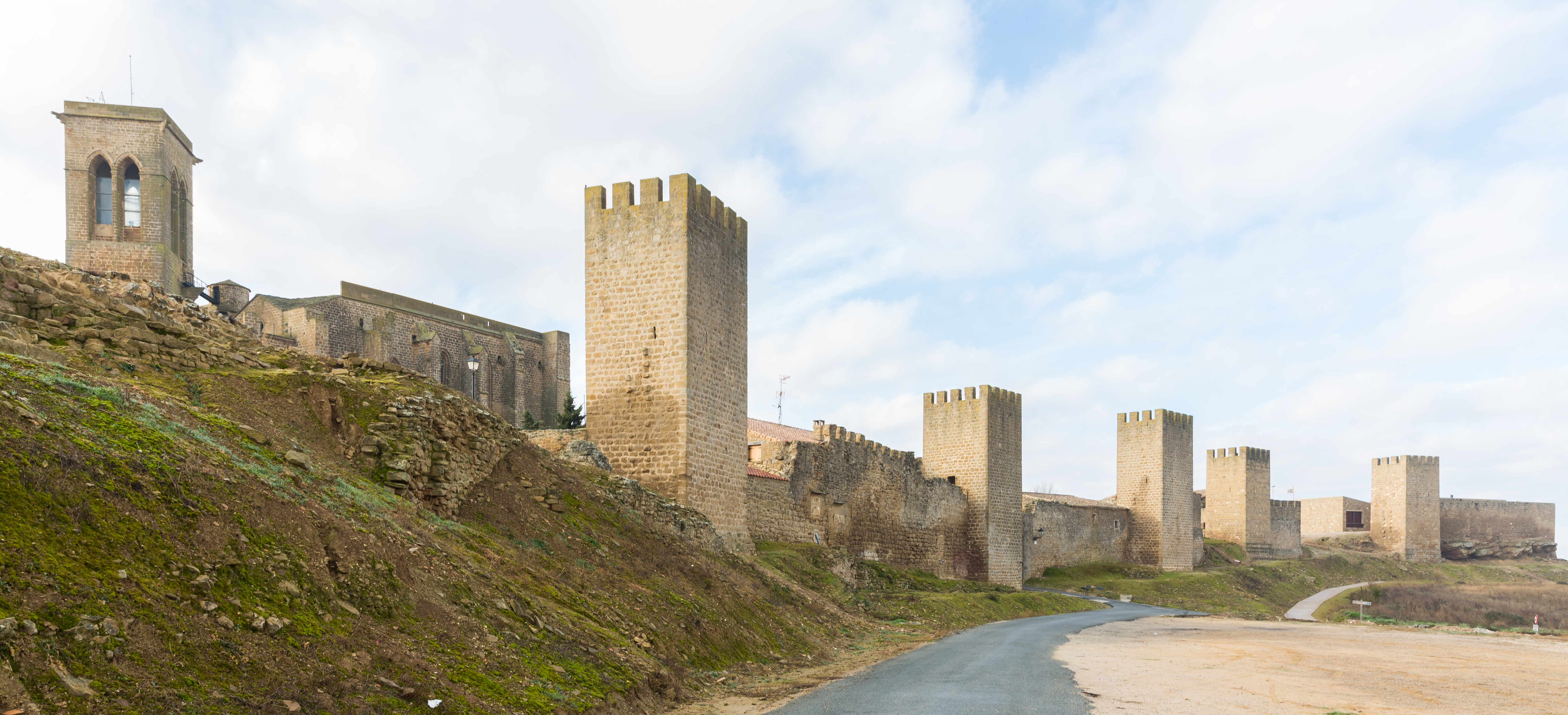 Cerco de Artajona, Navarre, Spain